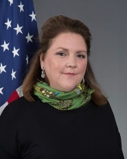 Rebecca Gonzales, United States Ambassador to Lesotho during the Trump Presidency